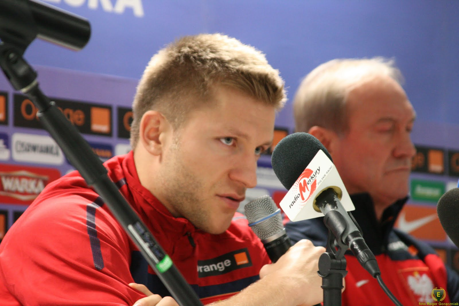 Polish football player Jakub Błaszczykowski